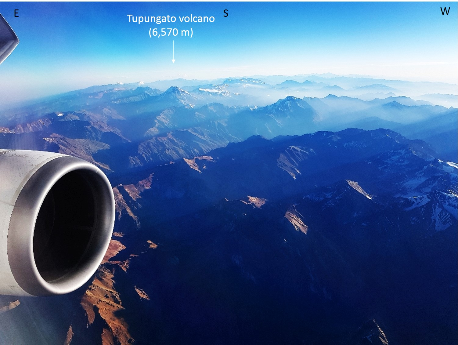 Tupungato volcano seen from the North. BSAA Star Dust was flying from east to west when it crashed against the top of the volcano, which stands out for its height above the other smaller mountains in the surroundings